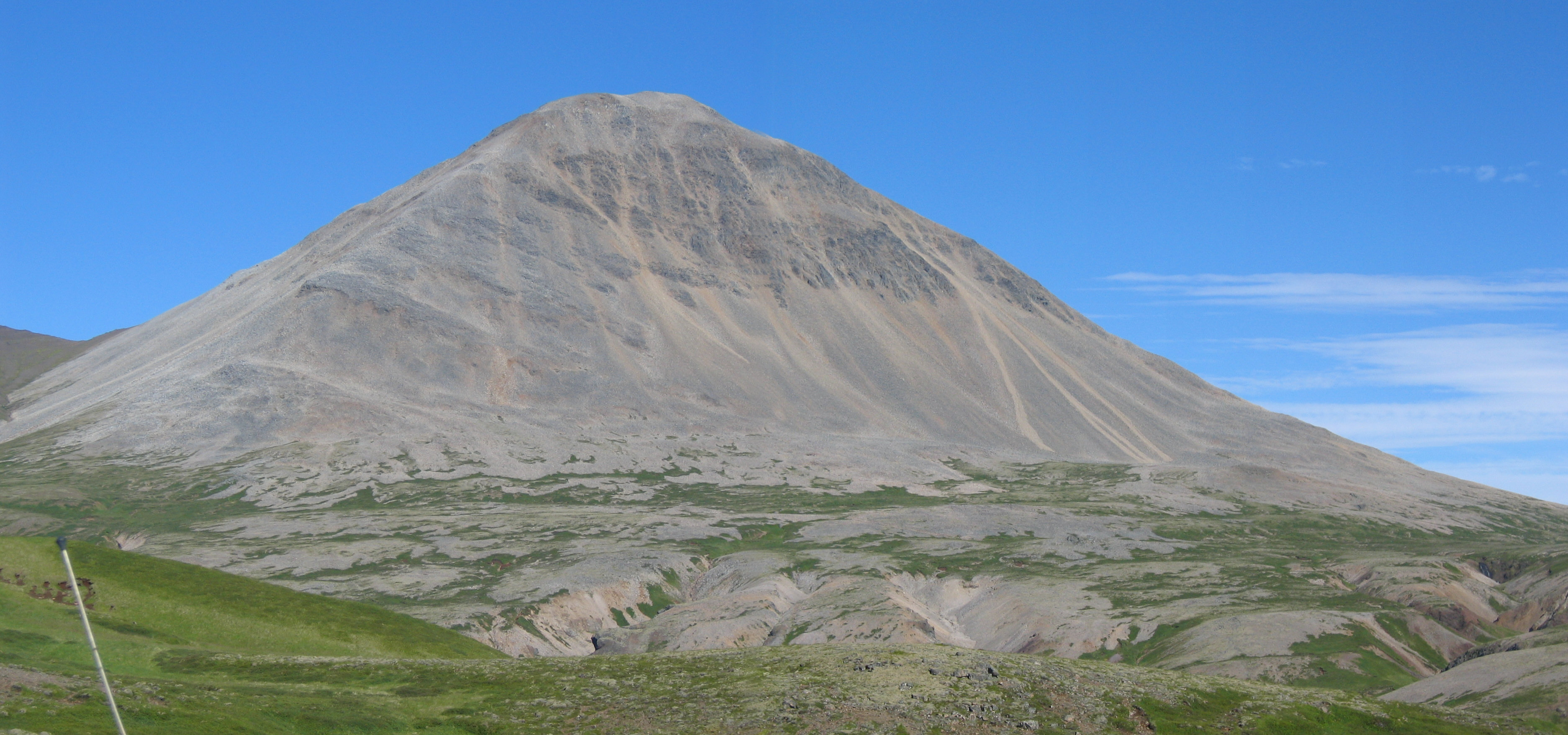 The mountain Baula in Borgarfjörður, Iceland. Photo (two photos stiched together) by Salvor Gissurardottir, juli 2006